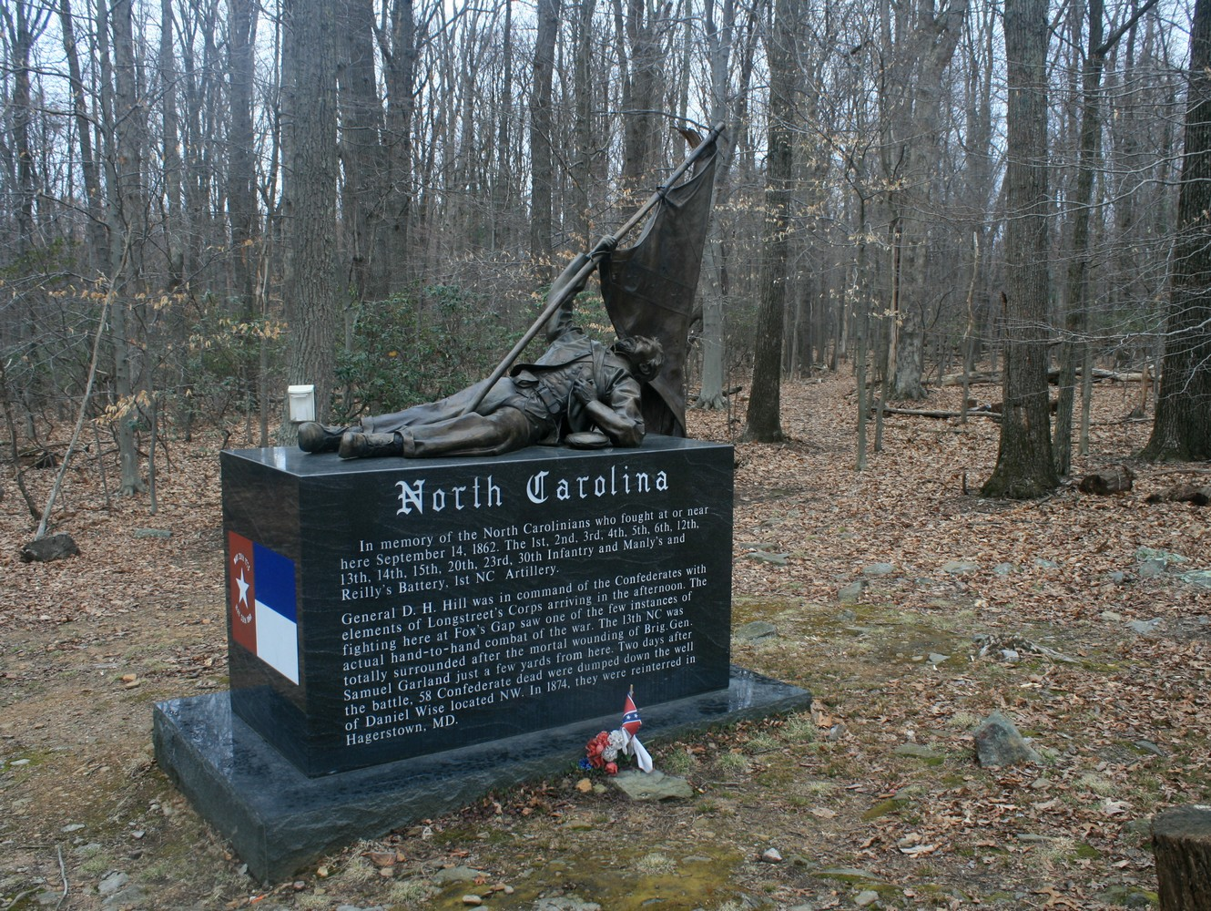 In memory of the North Carolinians, who fought at South Mountain September 14, 1862